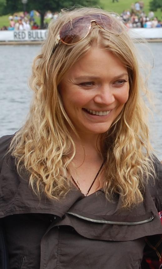 Jodie Kidd at the Red Bull Flugtag 2008.